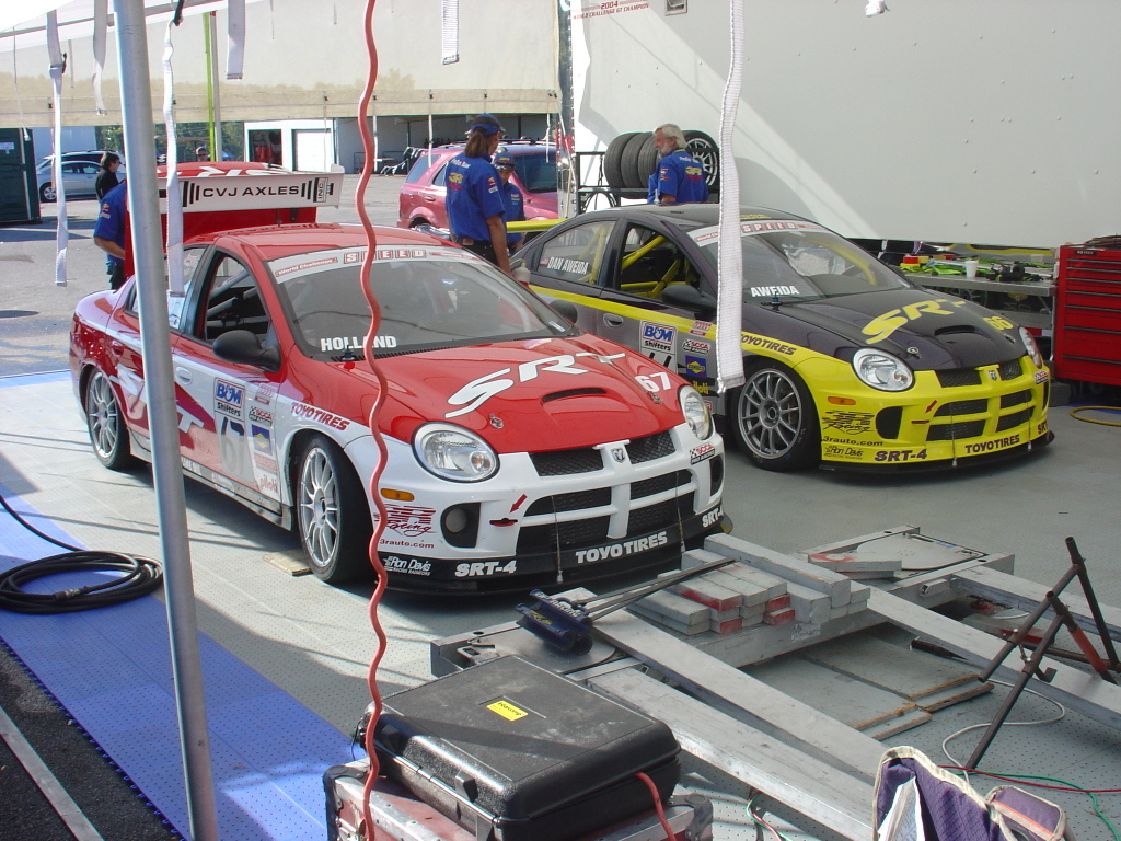 Robb Holland and Dan Aweida's SPEED World Challenge Dodge SRT-4's at Road Atlanta (Braselton, Georgia)